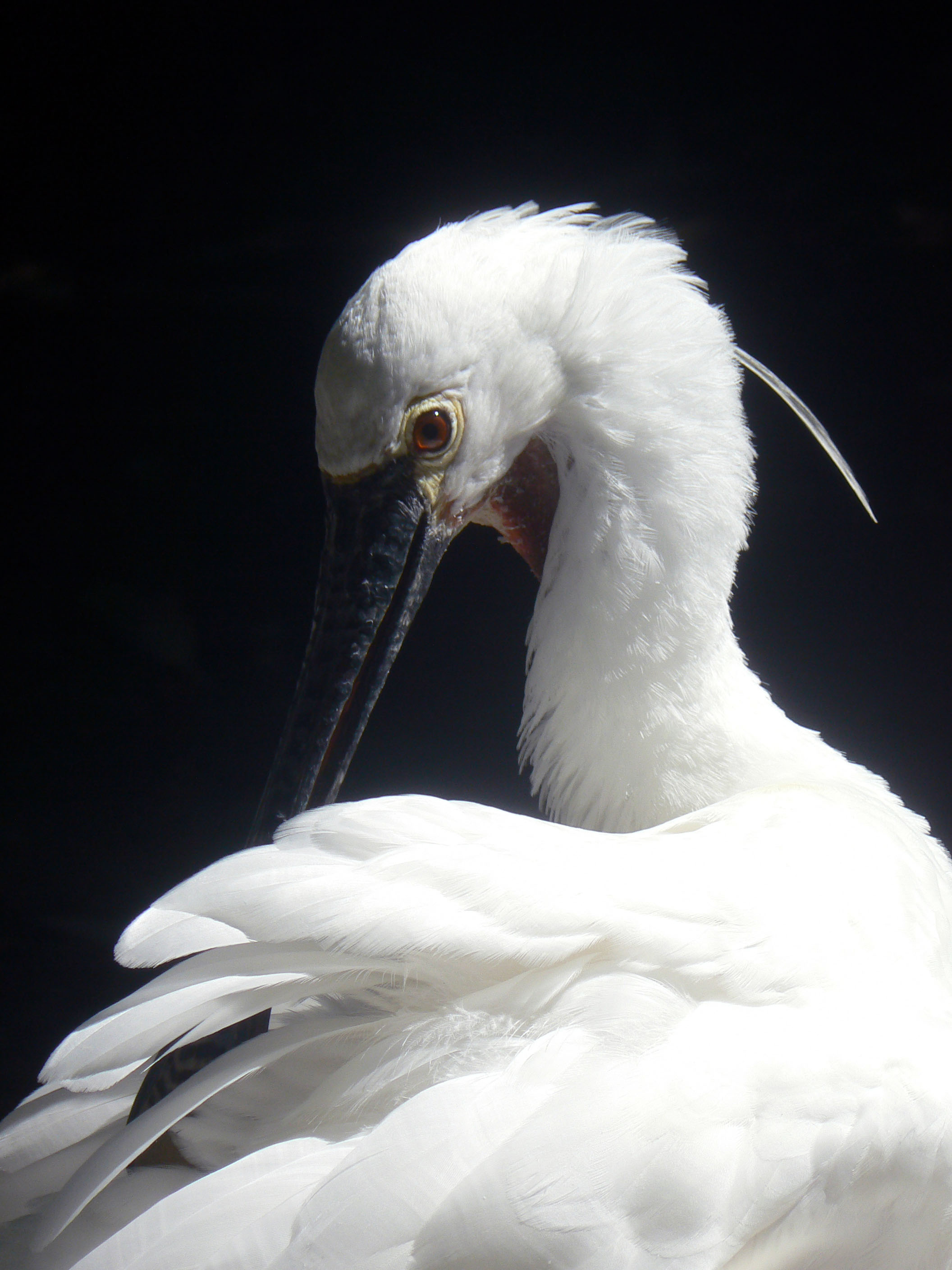 Common spoonbill(Platalea leucorodia) in the zoo, Rostov-on-don, Russia. The most adverse impact on the populations of this species have a draining of waterlogged lands and environment pollution.